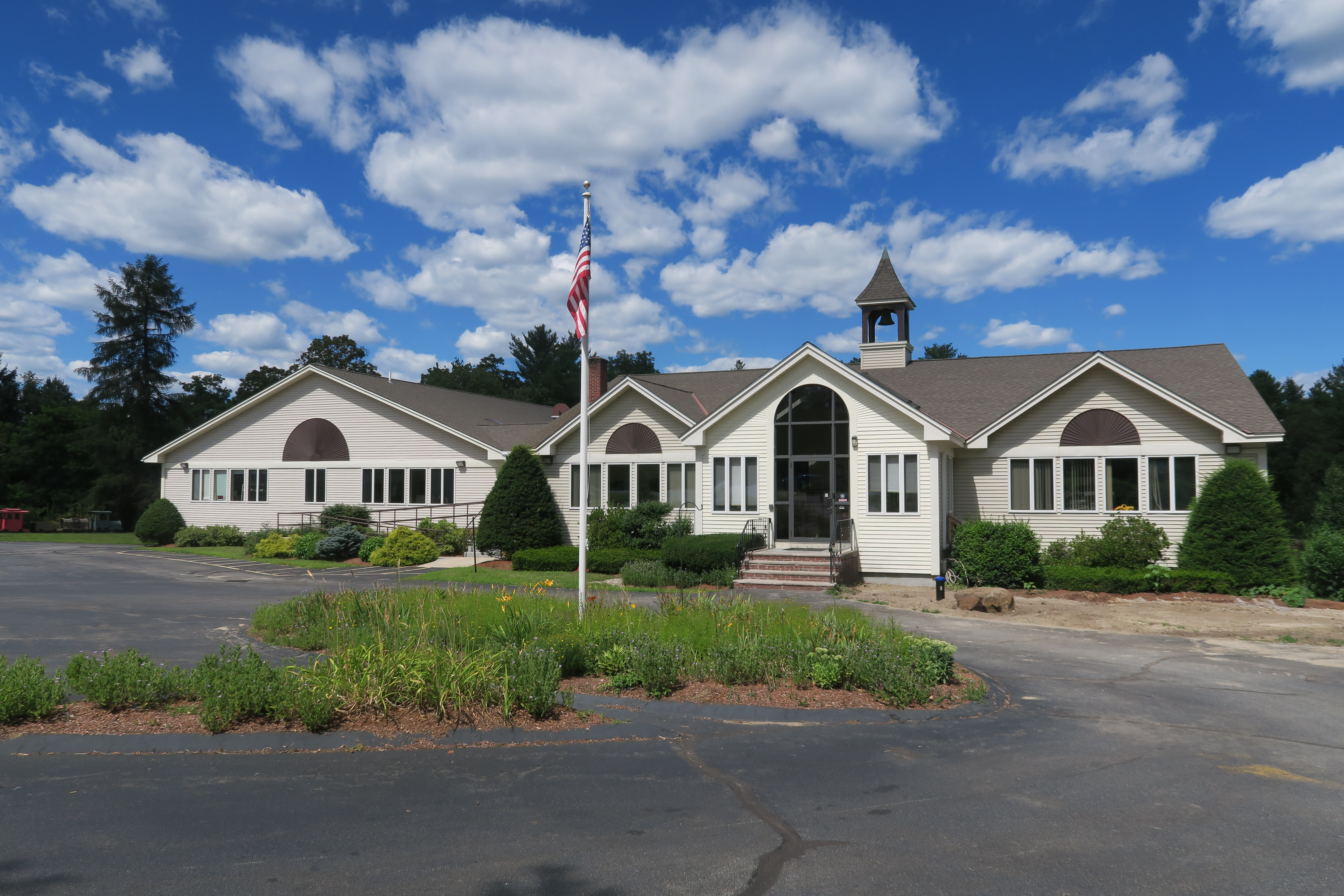 Hampstead Academy, Hampstead New Hampshire